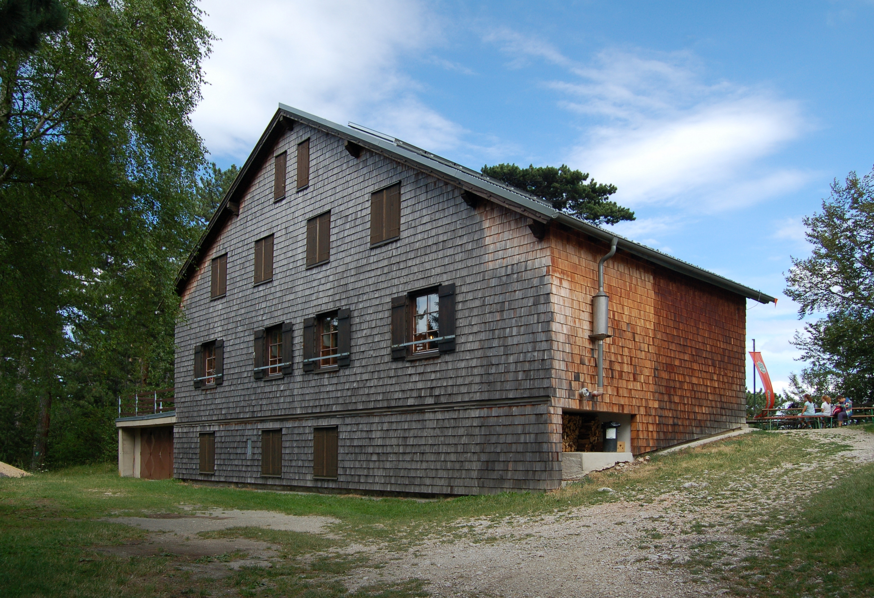 Neunkirchner Naturfreundehaus, 758m, an alpine hut.